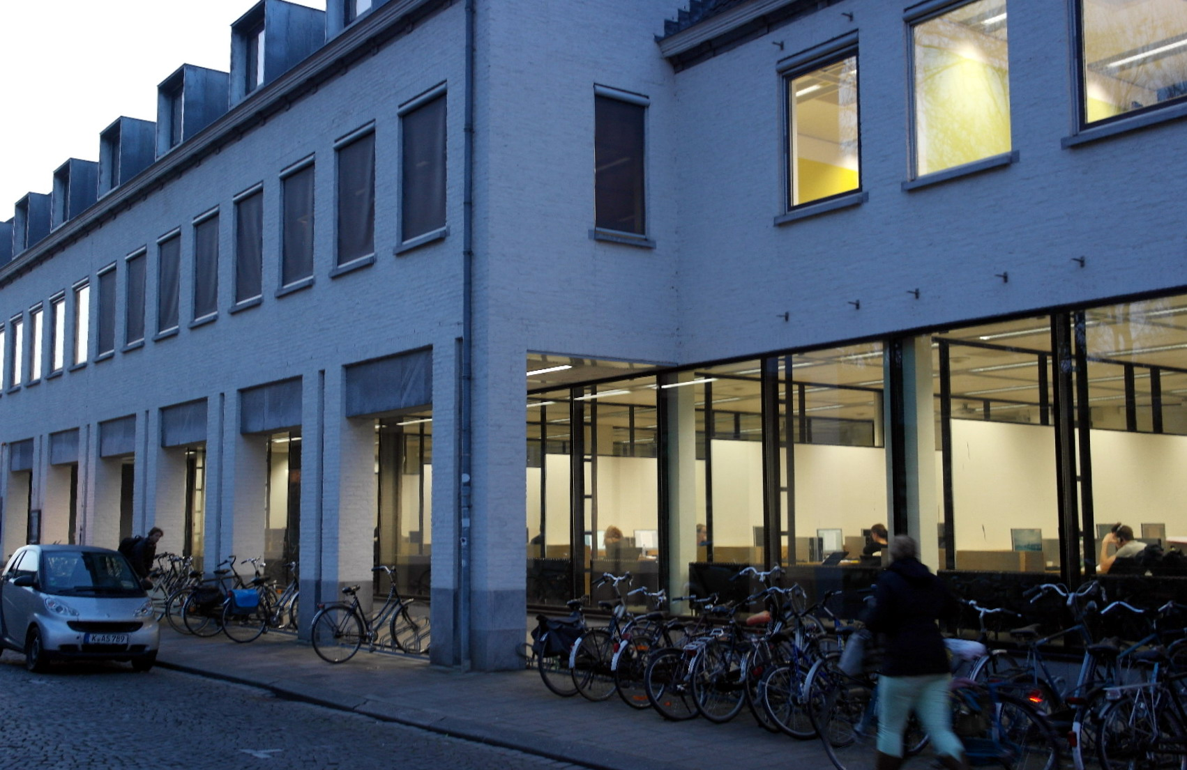 Maastricht, the Netherlands. View from Nieuwenhofstraat of the university library, inner city branch.